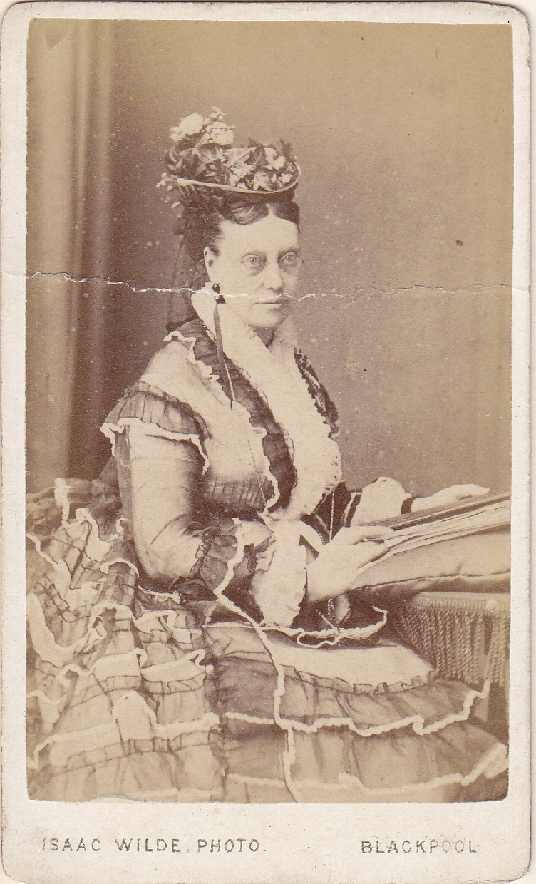 Lydia Becker (24 February 1827 – 18 July 1890) was a leader in the early British suffrage movement, as well as an amateur scientist with interests in biology and astronomy. She is best remembered for founding and publishing the Women's Suffrage Journal between 1870 and 1890.